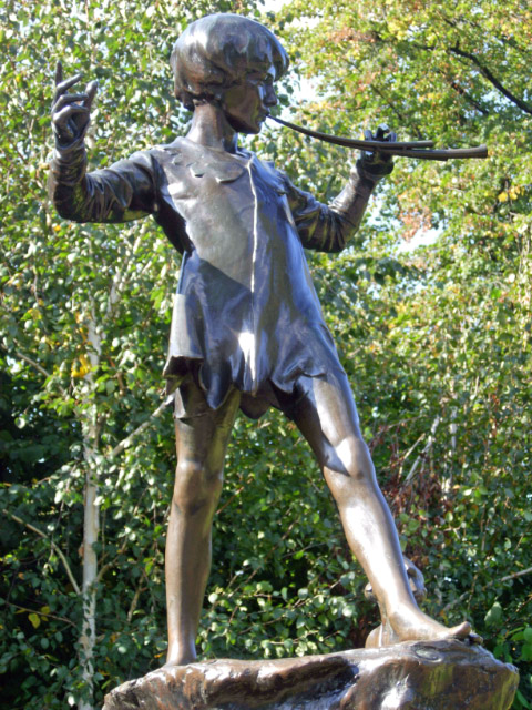 Peter Pan